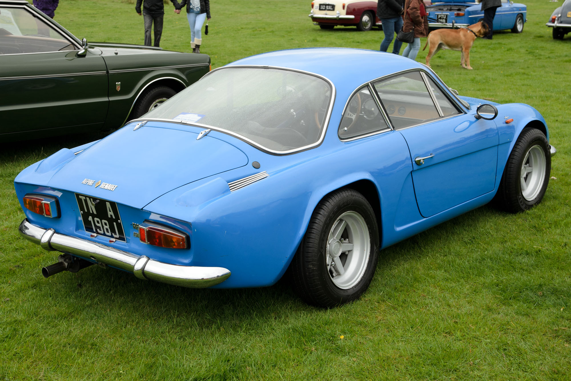 Capesthorne Hall Classic Car Show 24/05/2015